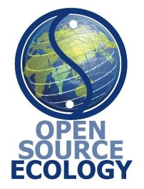 Open Source Ecology logo